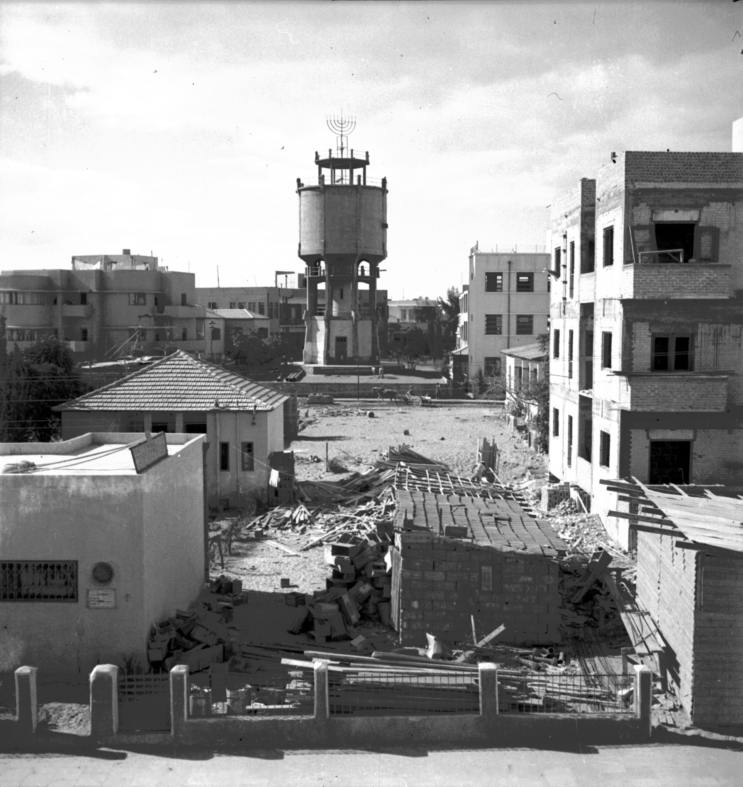 Tel-Aviv 1934, Cities in Israel